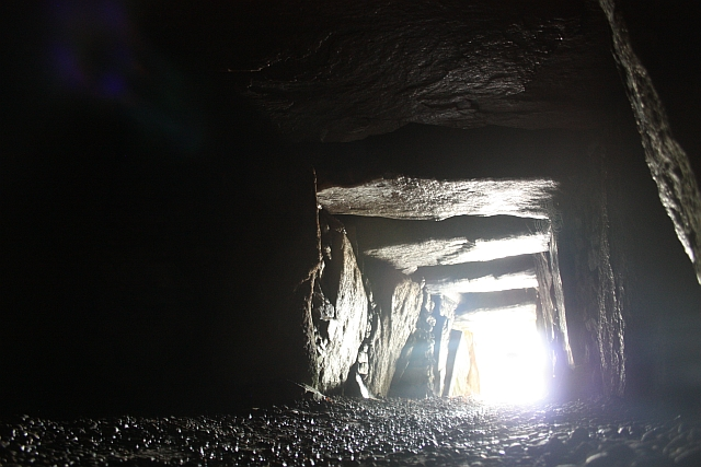 Passage tomb of La Hougue Bie. The view from the chamber looking along the passage to the outside world.